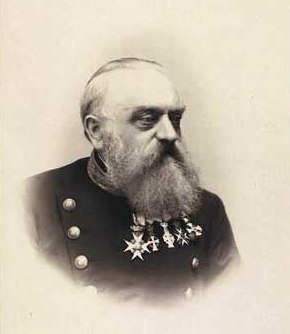 Jakob Marius Elieser Kristian Gad (1827-1902), Danish economist, statistician, and politician, MP